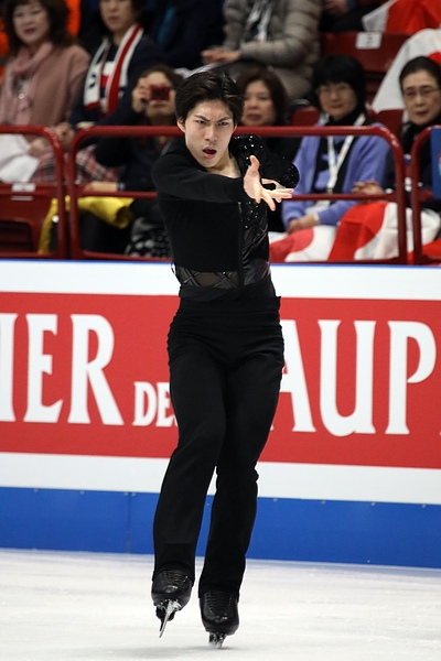 Photos – World Championships 2018 – Men (Keiji TANAKA JPN – 13th Place)